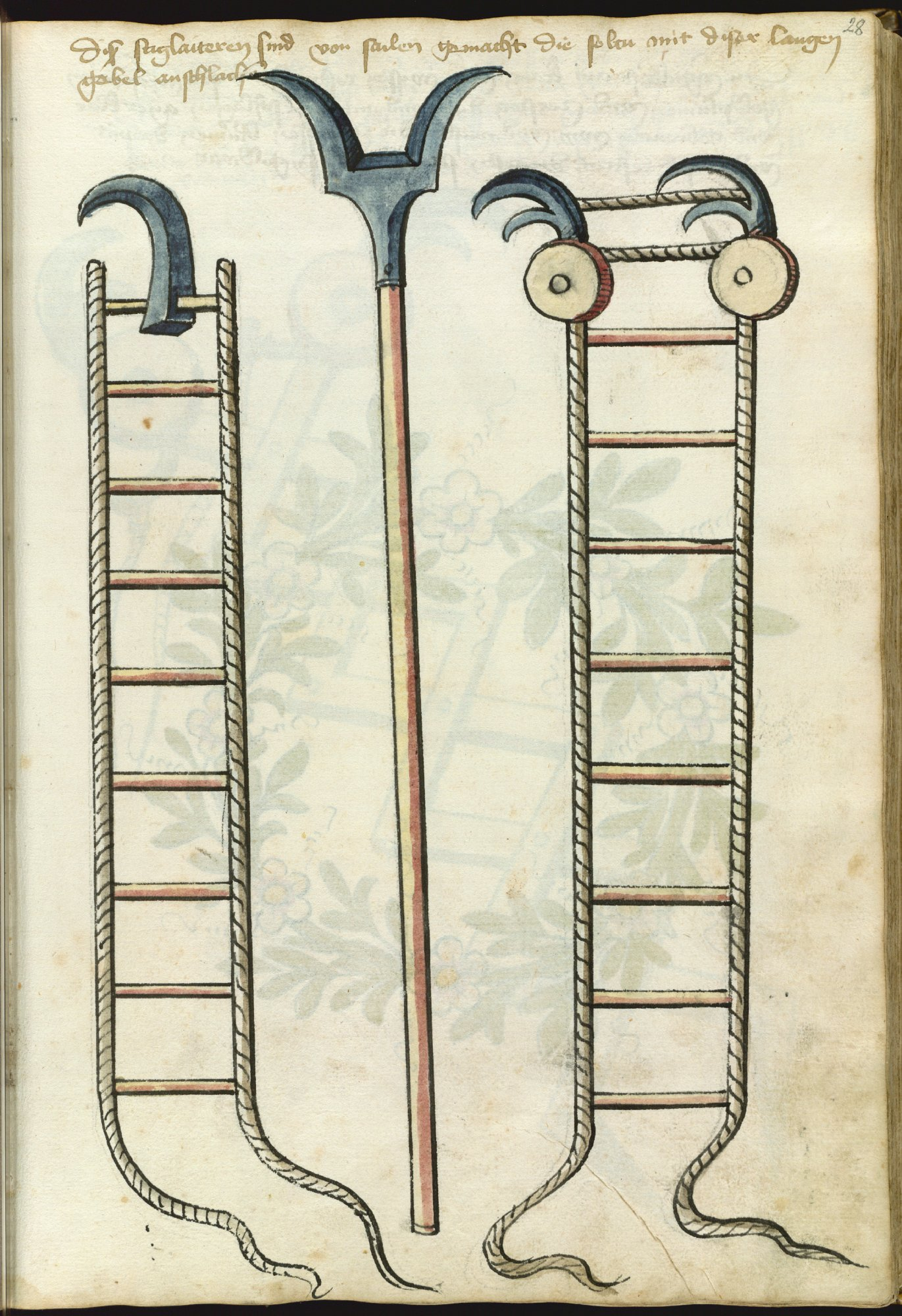 The Ms.Thott.290.2º is a fencing manual written in 1459 by Hans Talhoffer for his own personal reference and illustrated by Michel Rotwyler.